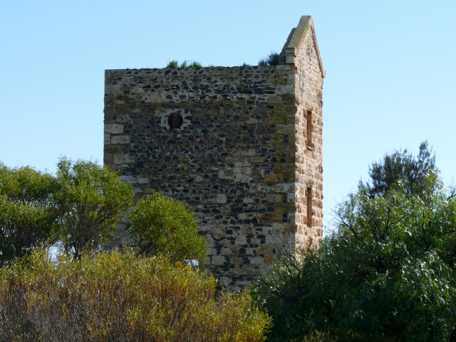 Ruins of an abandoned enginehouse at the Wallaroo mine site